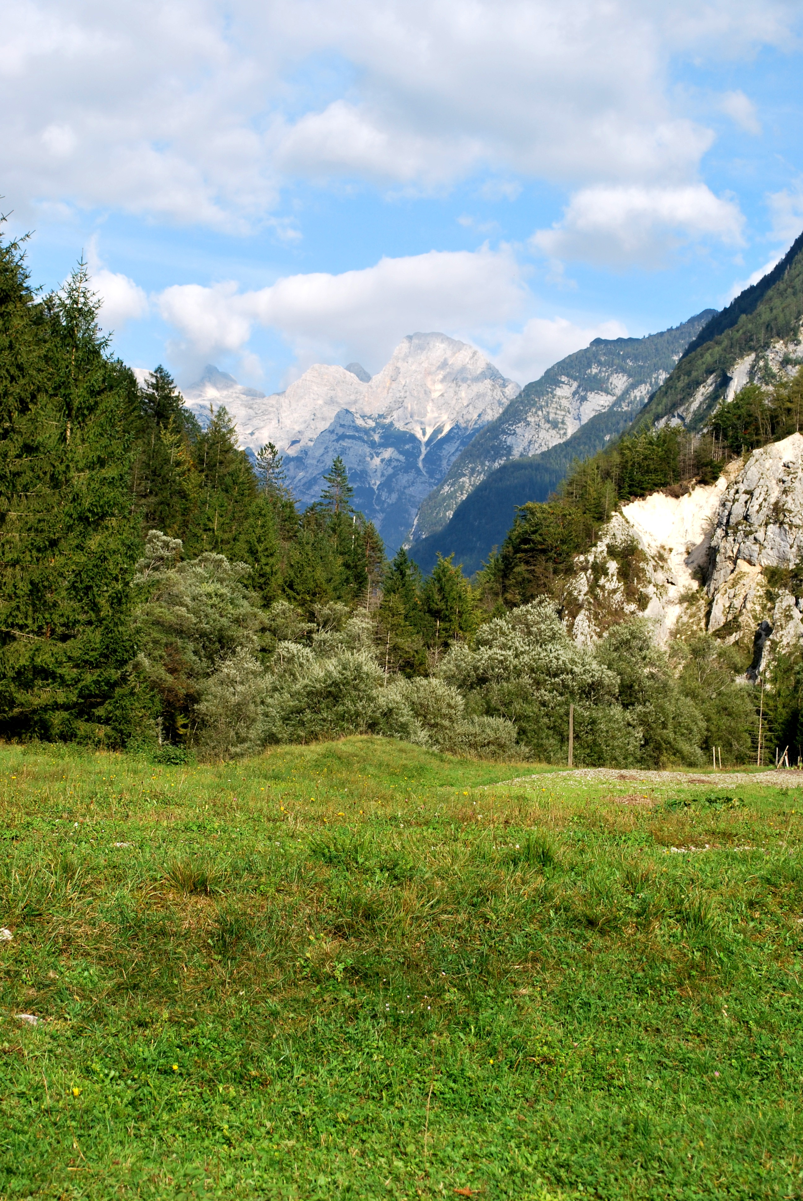 This is a photograph of Triglav National Park I took when I visited Slovenia in 2010.